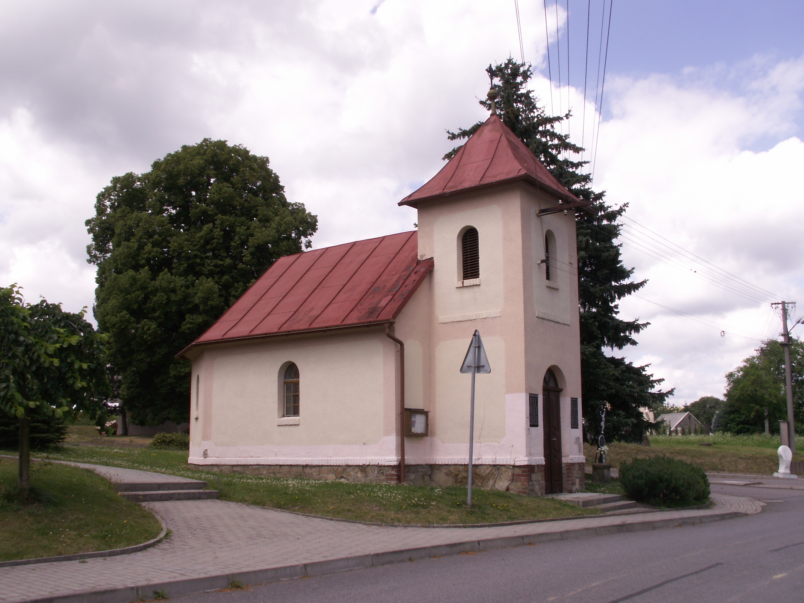 KONICA MINOLTA DIGITAL CAMERA, obec Oudoleň, okres Havlíčkův Brod, kaple Panny Marie